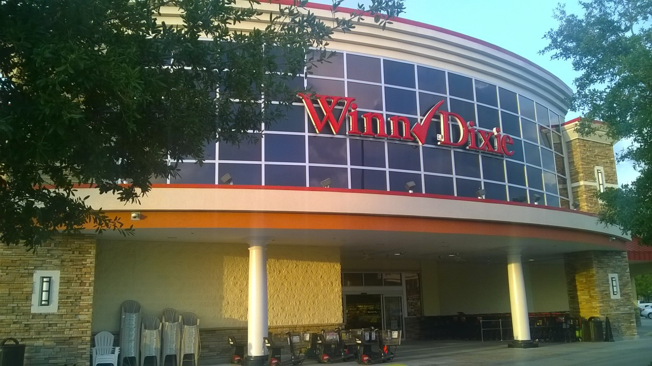 The store front of Winn-Dixie Store #736 in Port Charlotte, Florida. This store is located in the Promenades Mall on Tamiami Trail (U.S. 41).